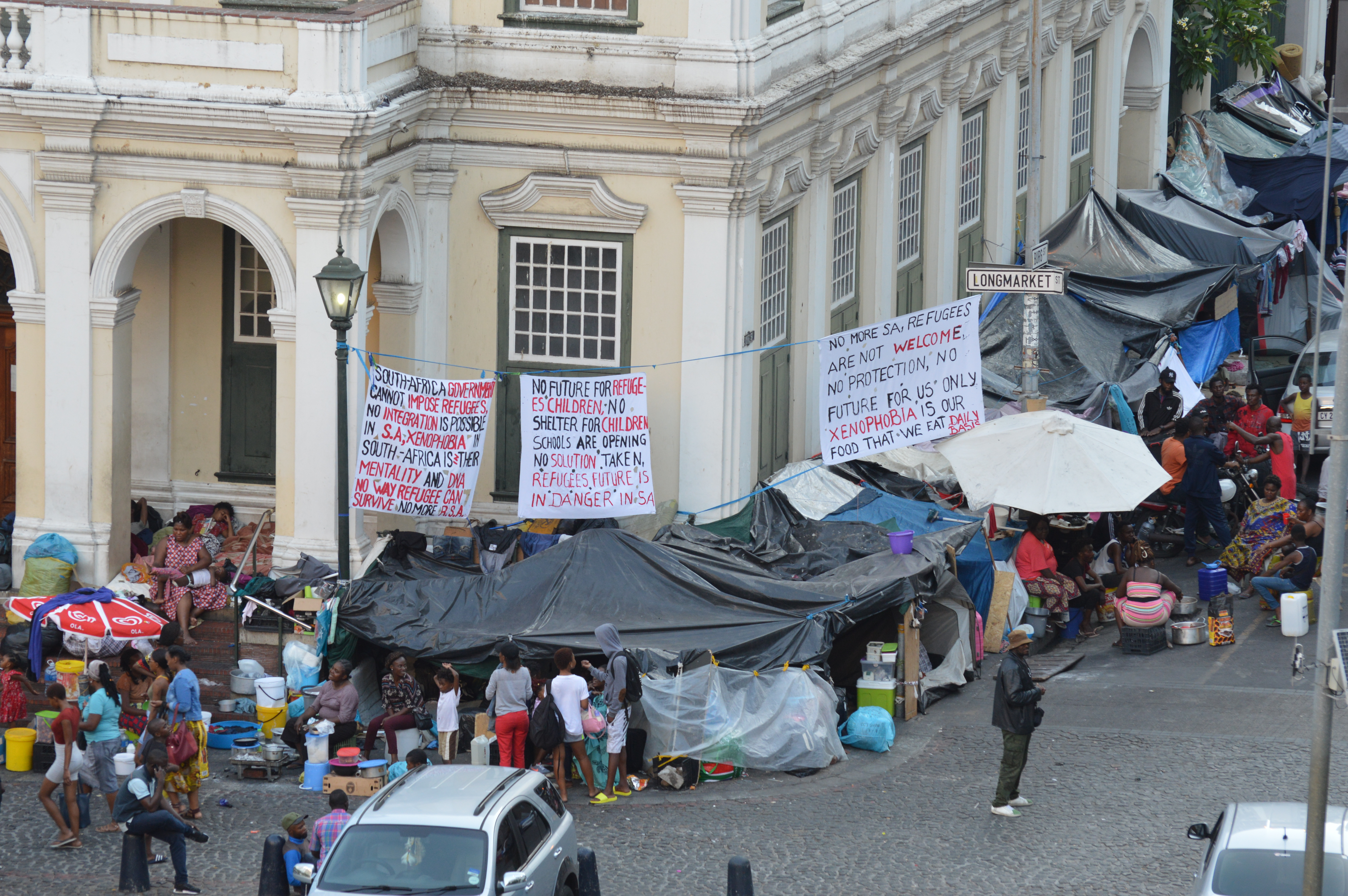 Refugee protestors occupying the area outside the Old Townhouse across the road from the Central Methodist Church which was occupyed inside and outside by the protestors.